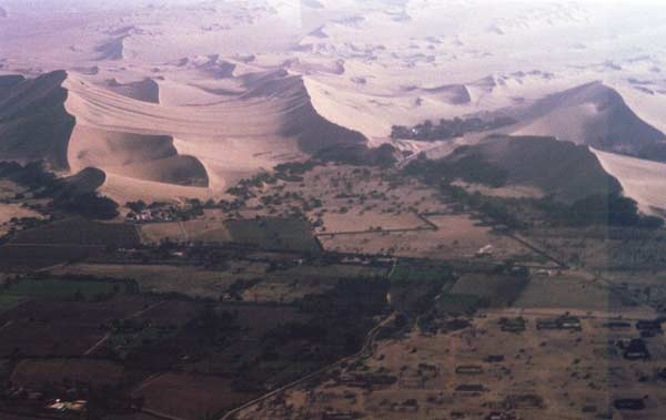 Ica dunes, Peru